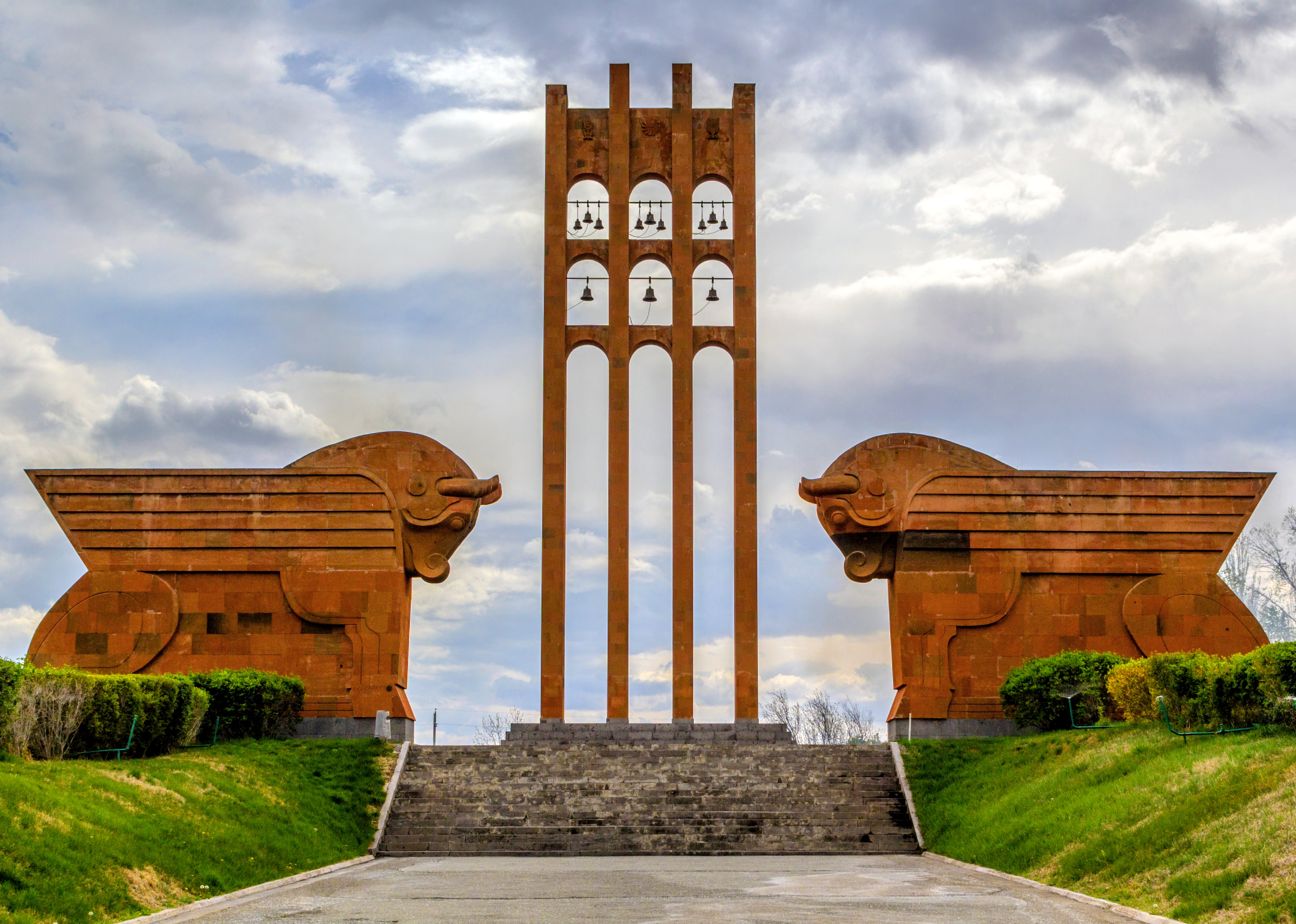 The Sardarapat Memorial near the Turkish border in Armenia.